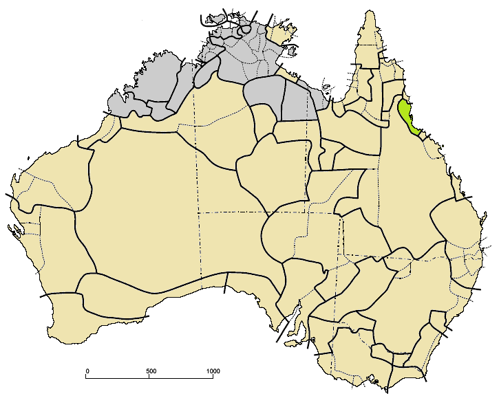 Dyirbalic languages (green) among other Pama–Nyungan (tan)